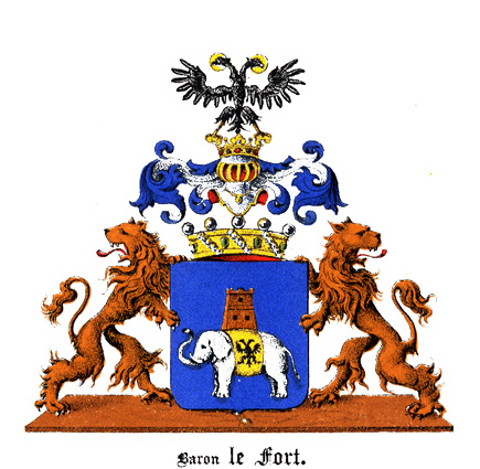 Coat of arms of Baron Le_Fort family